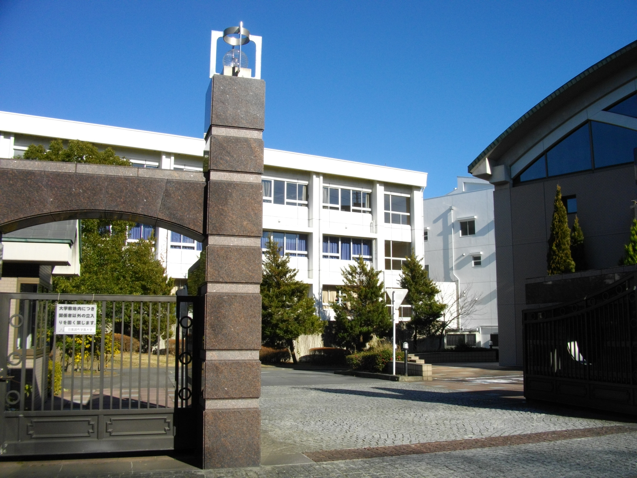 Den-en Chofu University